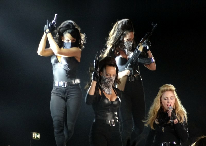 Madonna live at the o2 World, Berlin on 30 June 2012 during her MDNA Tour.